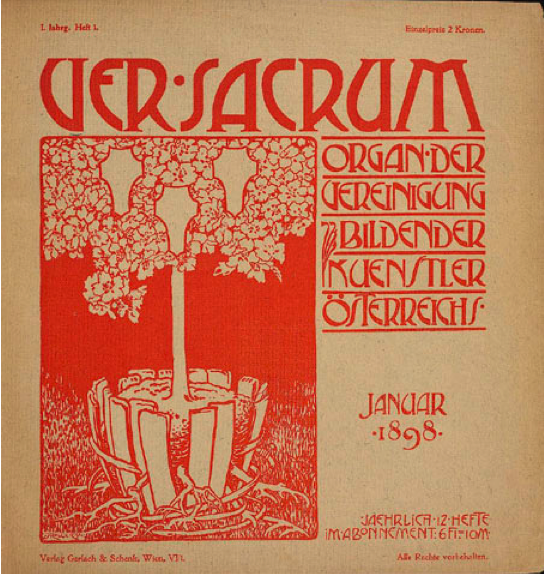 Cover of Ver sacrum, issue 01, january 1898, designed by Alfred Roller.